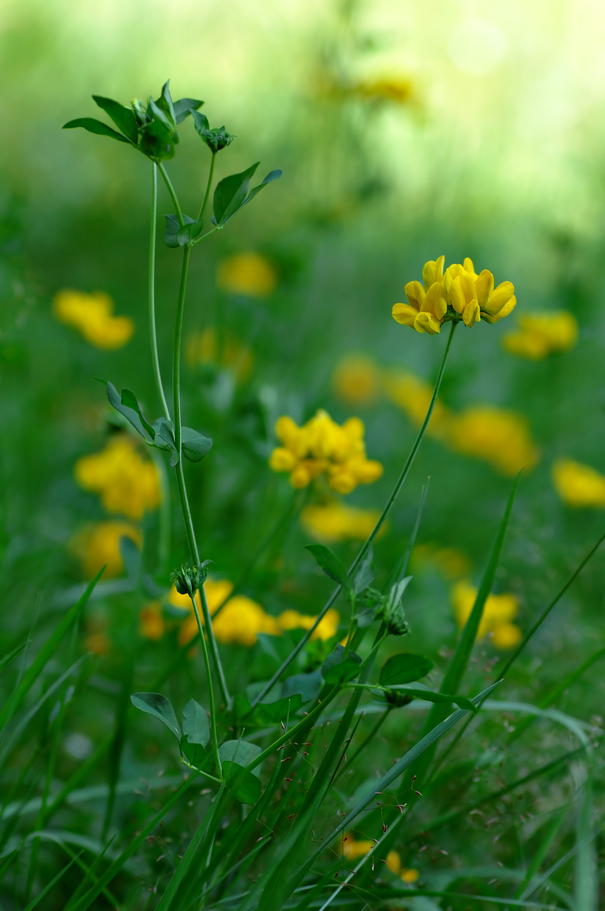 This image shows one Lotus pedunculatus plant.